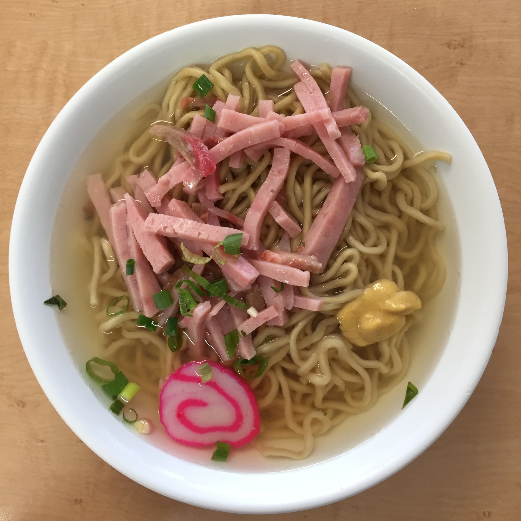 The small size classic Saimin at Jane's Fountain (Oahu, Hawaii) complete with SPAM, charsiu, fishcake, green onion, and hot mustard.